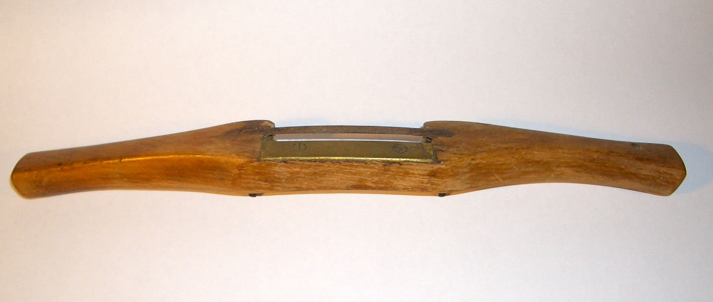 Wooden spokeshave